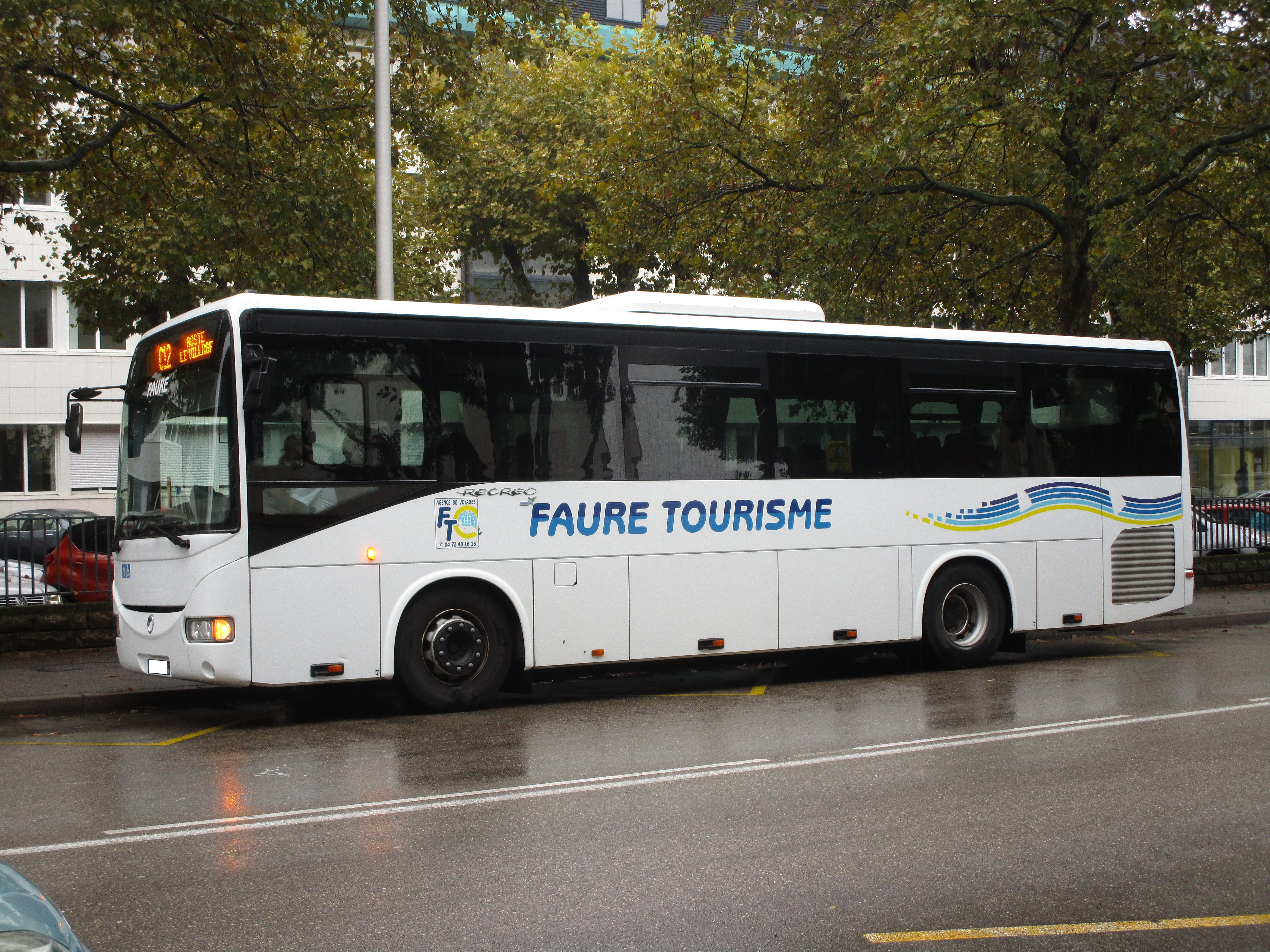 A bus Irisbus Recreo II of Faure in front of the vocational school of Chambéry on October 13, 2016.